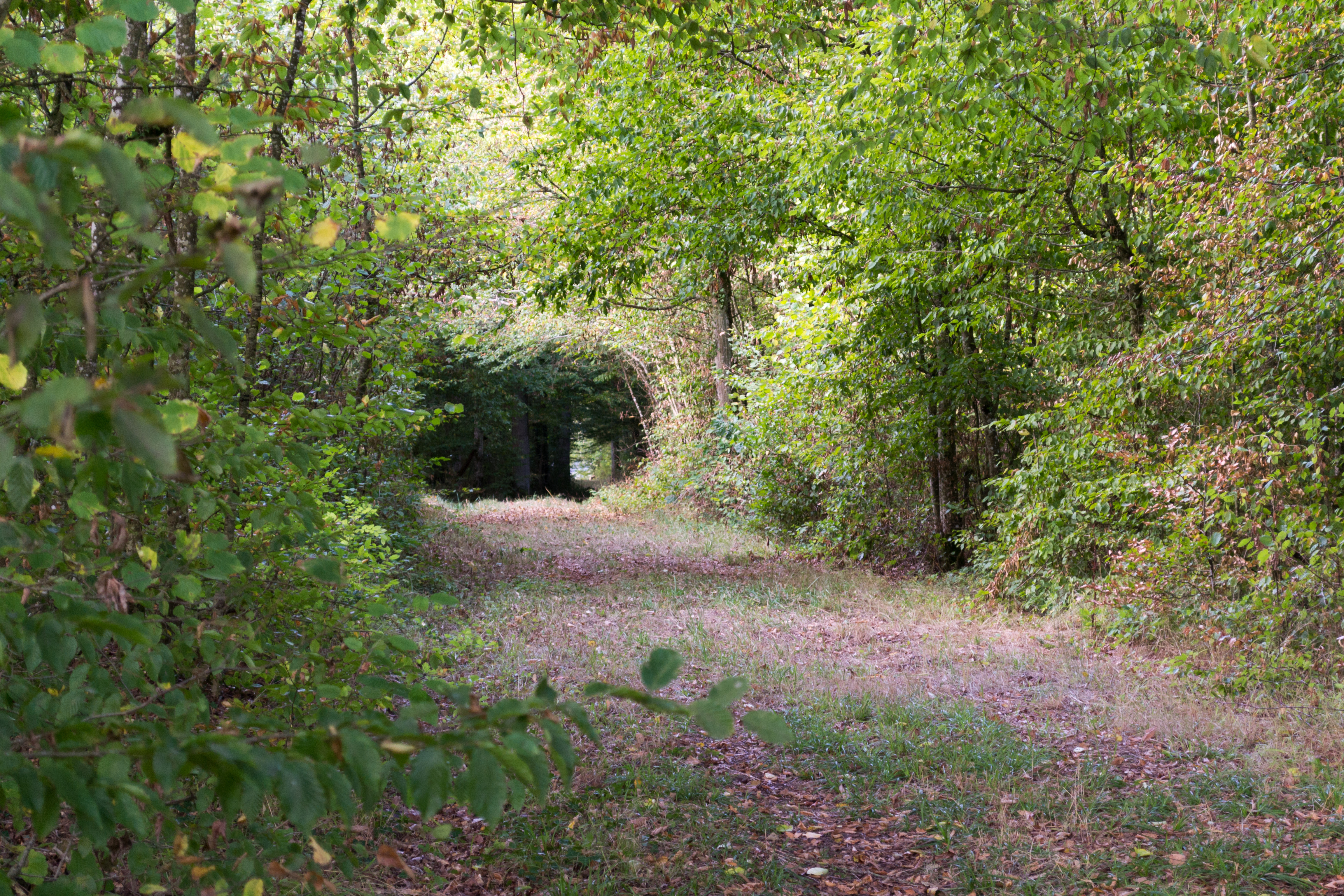 View along a forest track, as it bores its way through vegetation